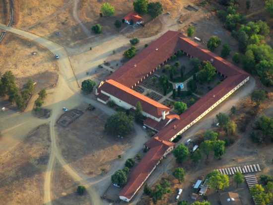 Evening view of the mission.